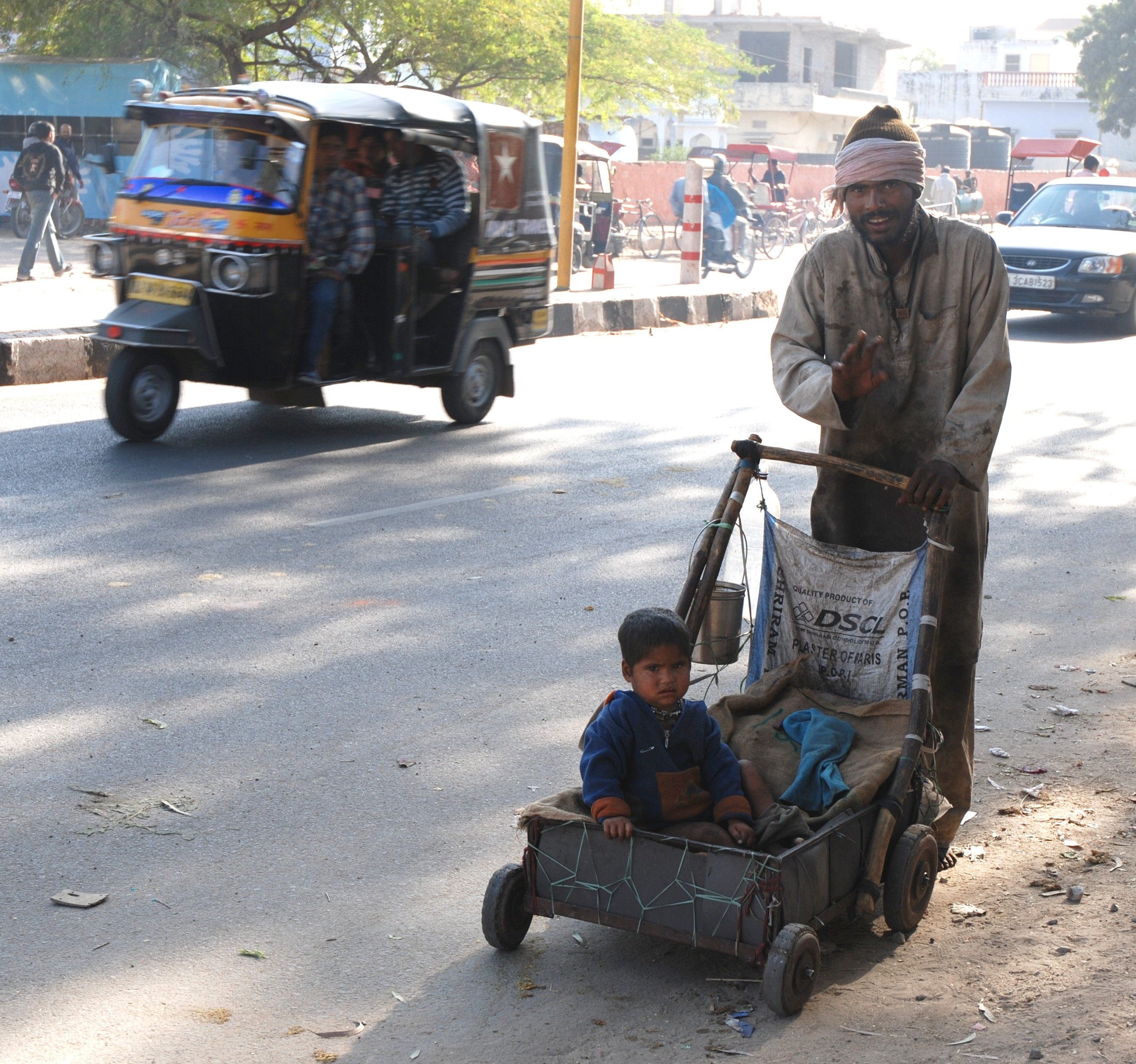 Beggars in Jaipur, India